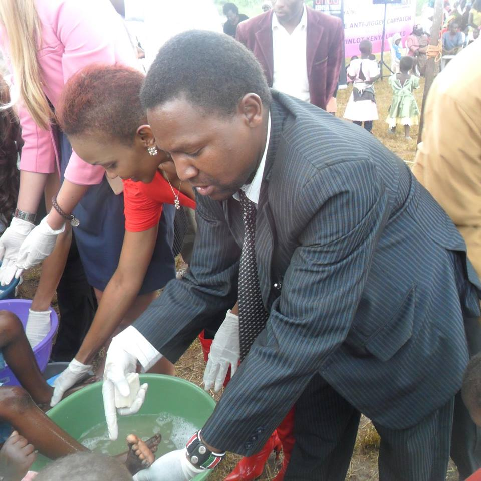 Washing the feet of children infested with jiggers from a remote village in Kiambu This is an image of "African people at work" from Kenya